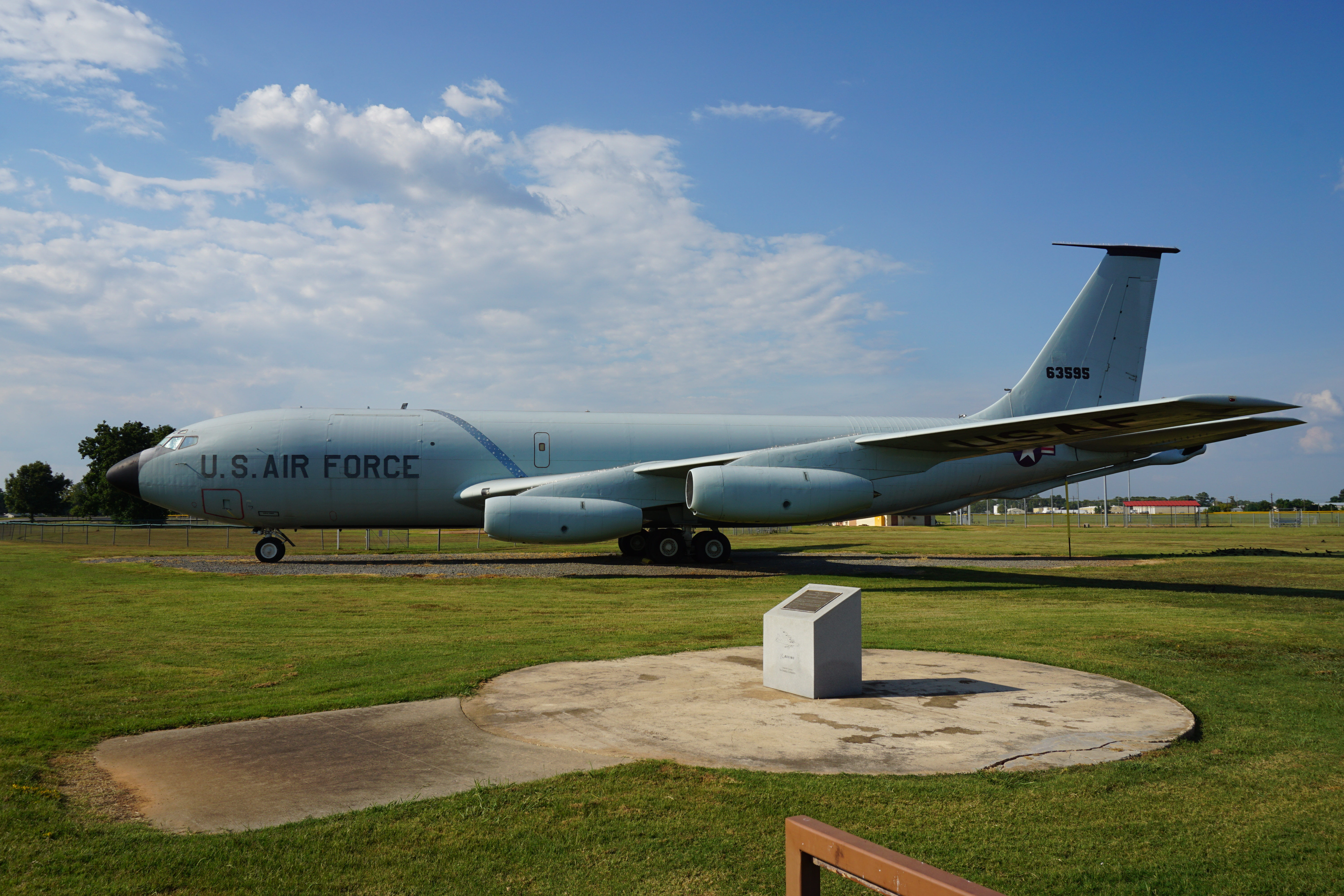 A Boeing KC-135A Stratotanker on display at the Barksdale Global Power Museum at Barksdale Air Force Base near Bossier City, Louisiana (United States).